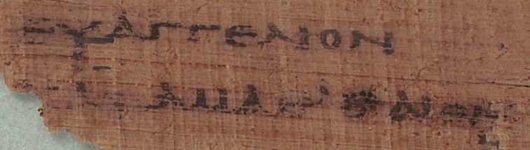 Detail of a flyleaf for a manuscript of the Gospel of Matthew, containing the title ευαγγελιον κ̣ατ̣α μαθ᾽θαιον (euangelion kata Maththaion). Part of BnF Suppl. gr. 1120 ii 3 (= Gregory-Aland P4, Papyrus 4). This is the earliest known manuscript title for Matthew's gospel and one of the earliest manuscript titles for any gospel (alongside with John's P66 and P75).